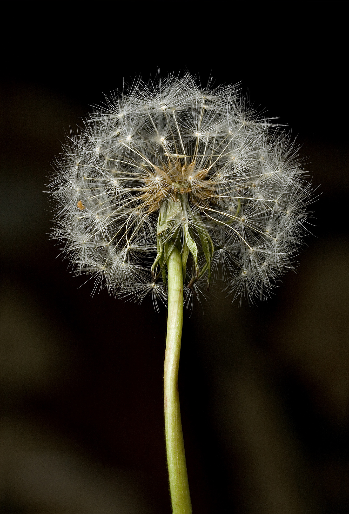 A Dandelion (Taraxacum) Clock Camera data Camera Canon EOS 400D Lens Canon EF 70-200mm f4L w/ 12 + 24mm extension tubes Flash Umbrella left Focal length 100 mm Aperture f/11 Exposure time 1/200 s Sensivity ISO 400